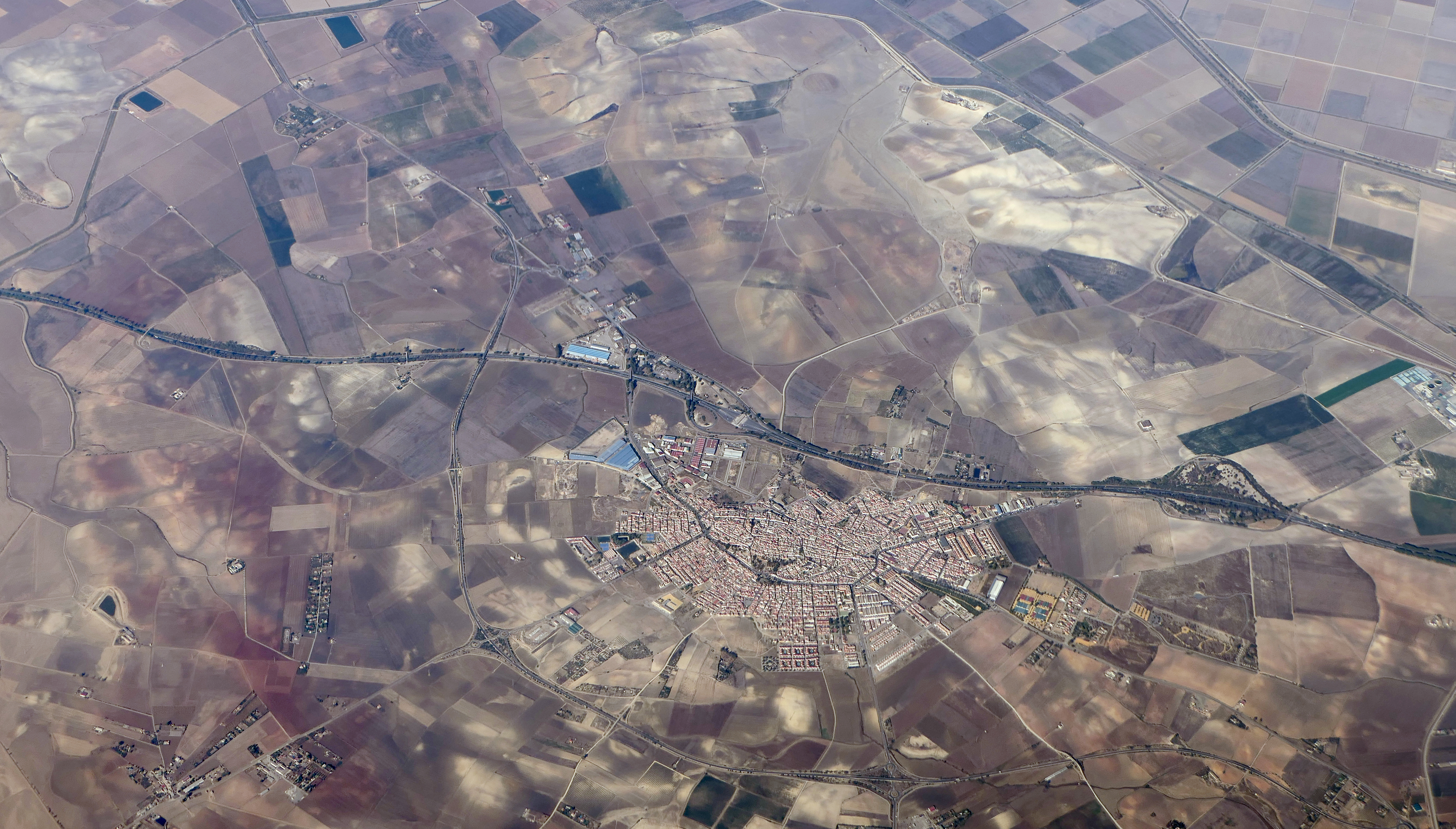 An aerial view of the town of Las Cabezas de San Juan, in Seville province in Andalusia.